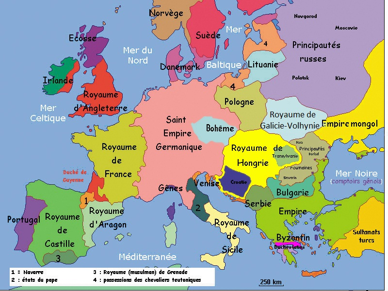 Early 14th-century Europe